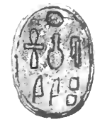 Picture of a scarab of pharaoh Seneferankhra Pepi (Pepi III). 16th dynasty, Second intermediate period.